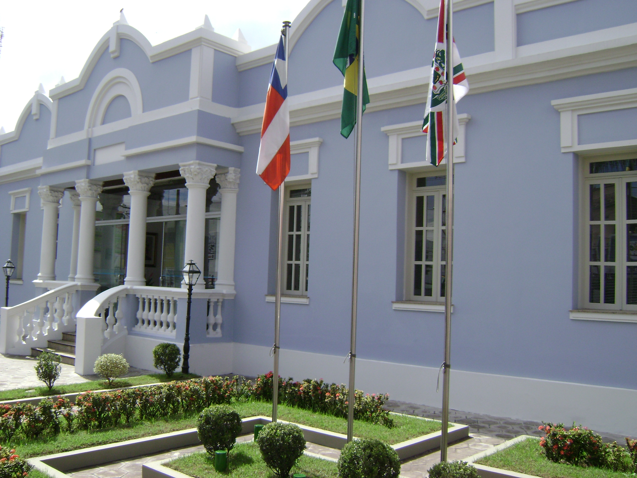 Câmara municipal de Feira de Santana.